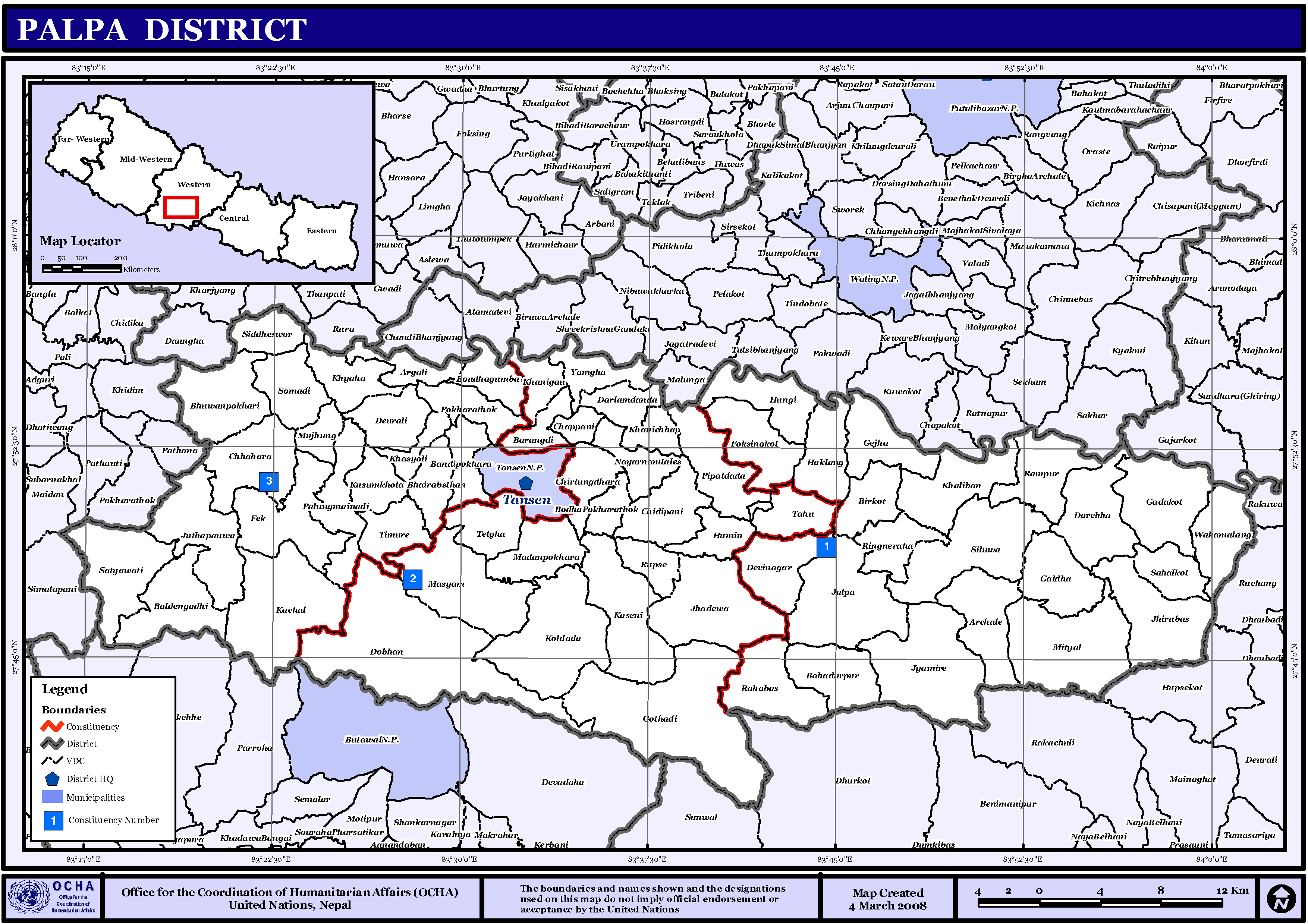 Map displaying Village Development Committees in Palpa District, Nepal